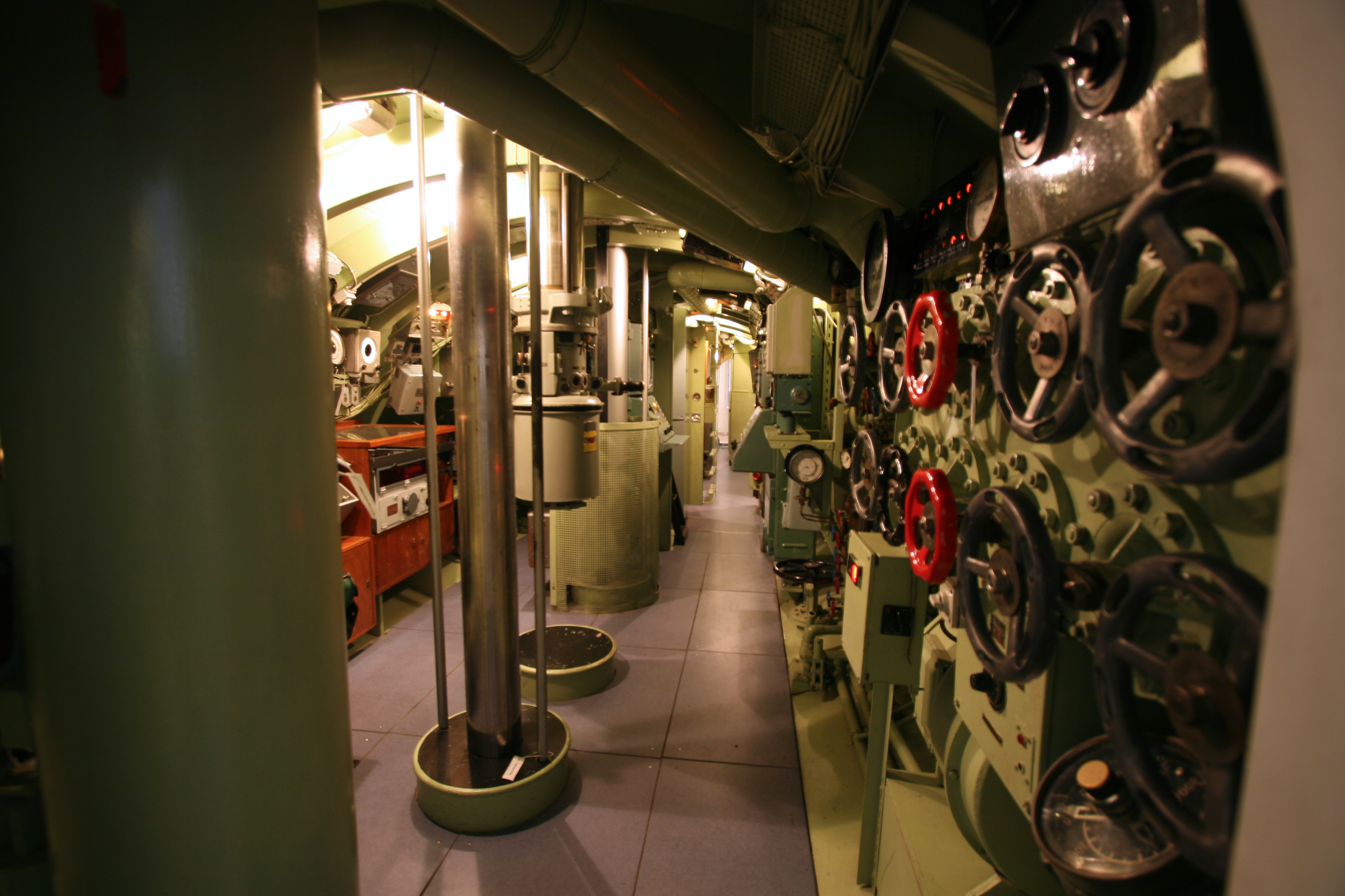 Orlogsmuseet, The Royal Danish Naval Museum in Copenhagen. Interior of a submarine. Interiør fra ubåden Spækhuggeren.